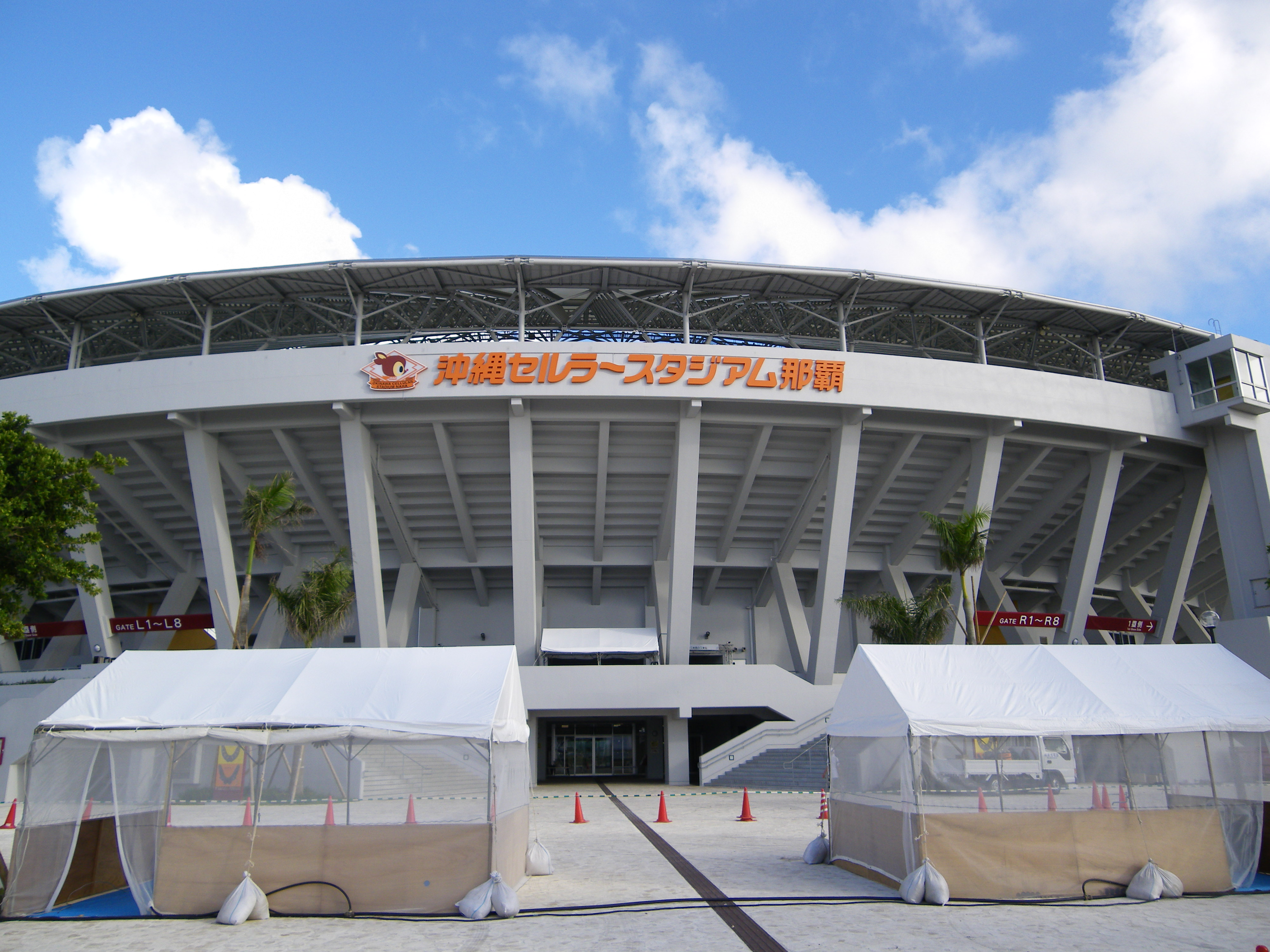 Okinawa Cellular Stadium Naha (Naha Municipal Ohnoyama Baseball Stadium).